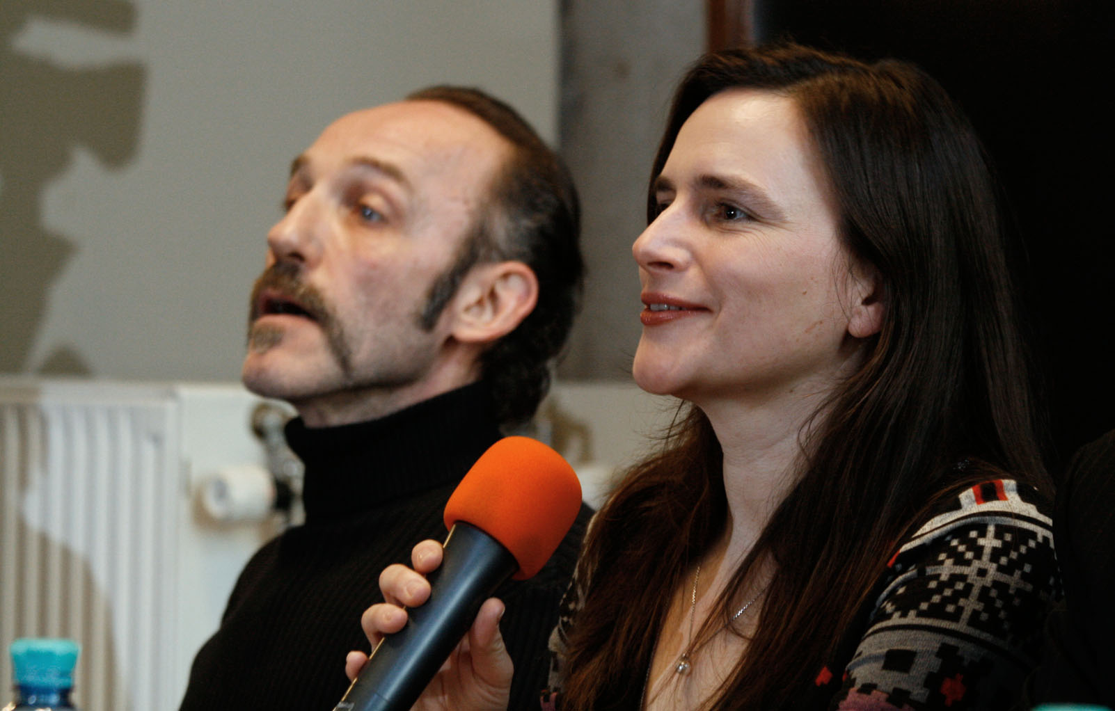 Barbara Albert and Karl Markovics during the press conference in advance of the Austrian Film Awards 2011 at the Odeon theater in Vienna.